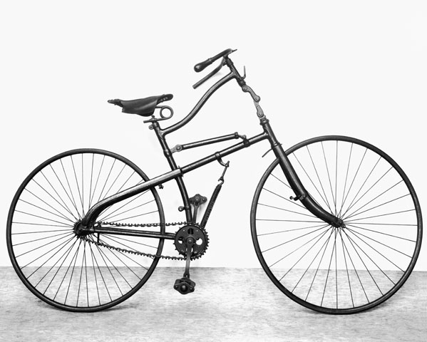 A Whippet safety bicycle now in the collections of the Science Museum (London) as copied from their ObjectWiki.